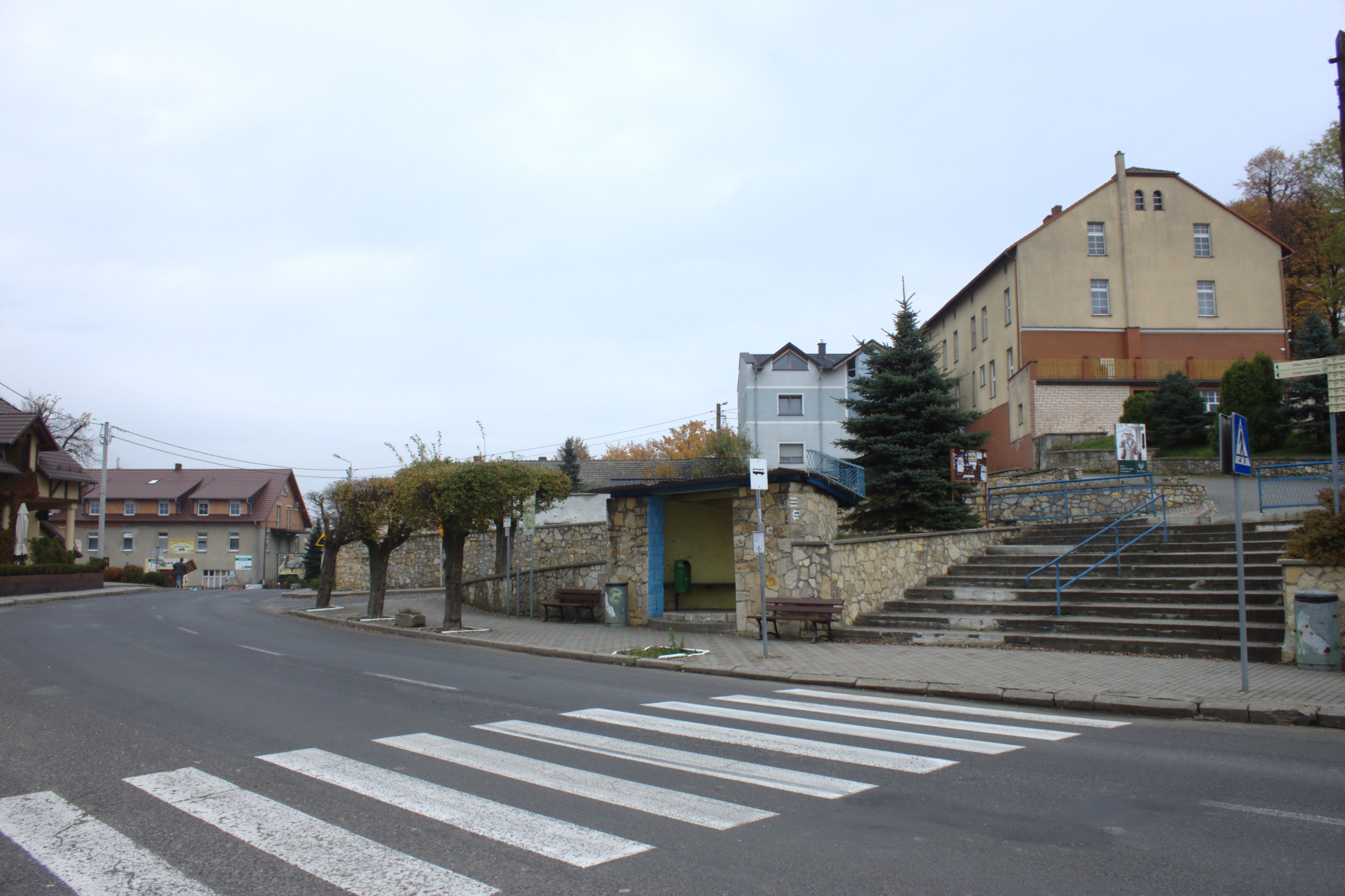 Main square in Góra Świętej Anny, Opole Voivodeship, Poland